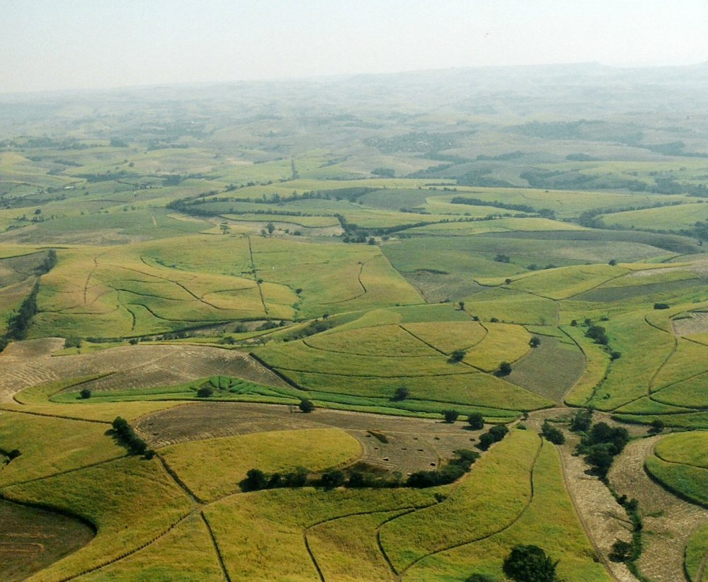 Along the east coast, north from Durban are huge sugar cane fields.